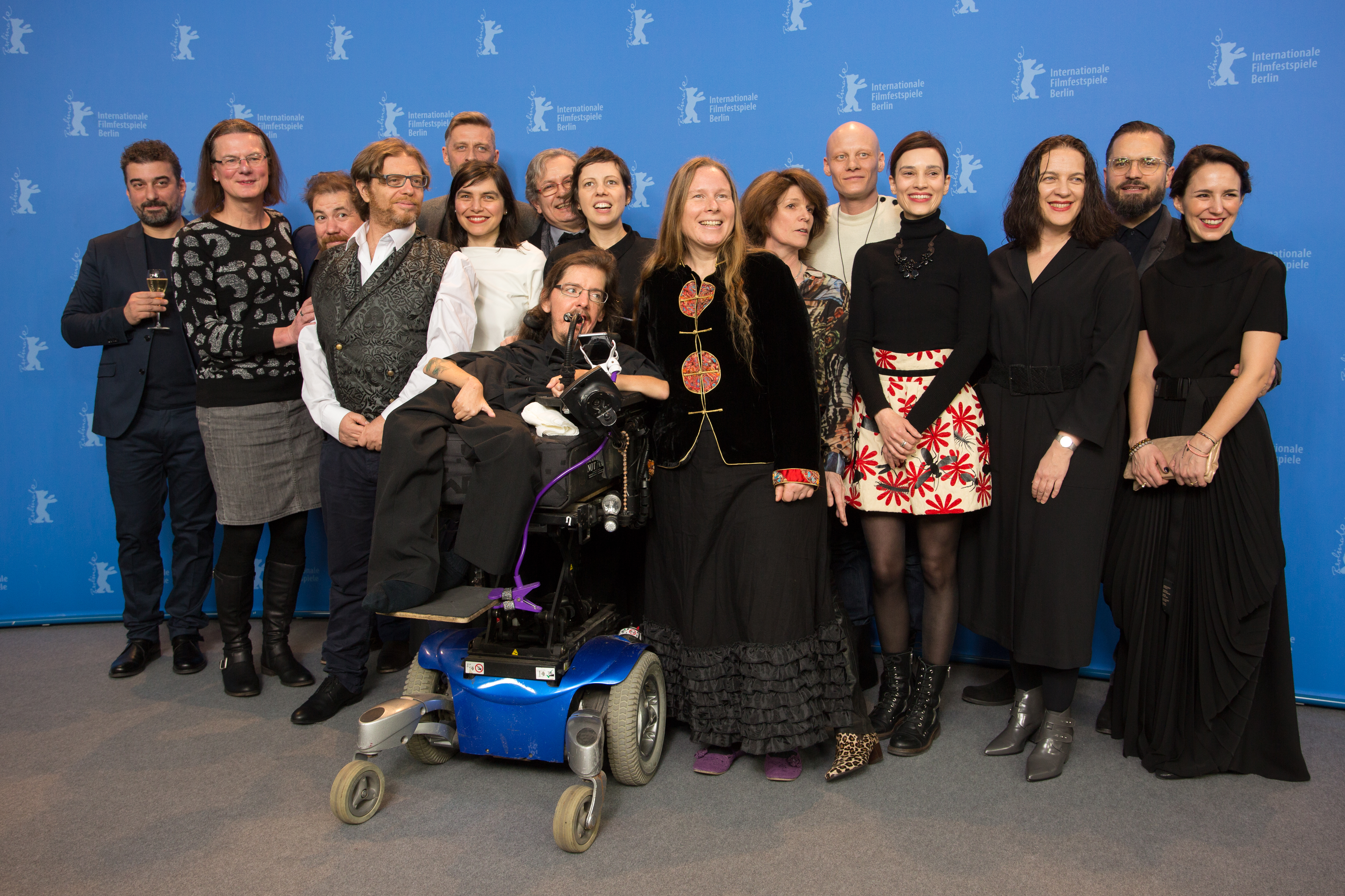 The film team of Touch Me Not at the Berlinale 2018